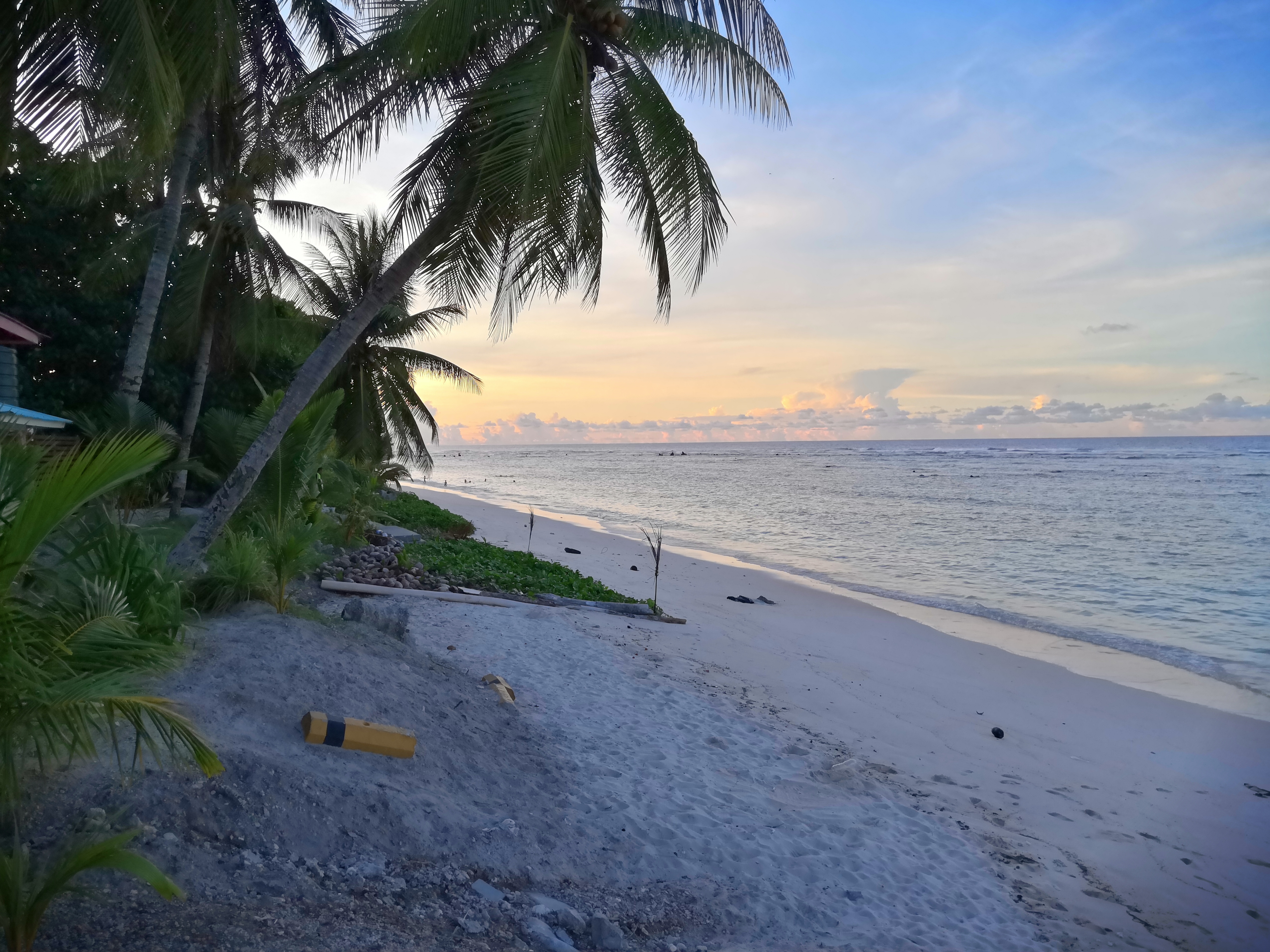 Ewa Beach in front of Capelles Supermarket